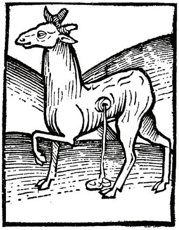 Medieval woodcut illustration of a musk deer